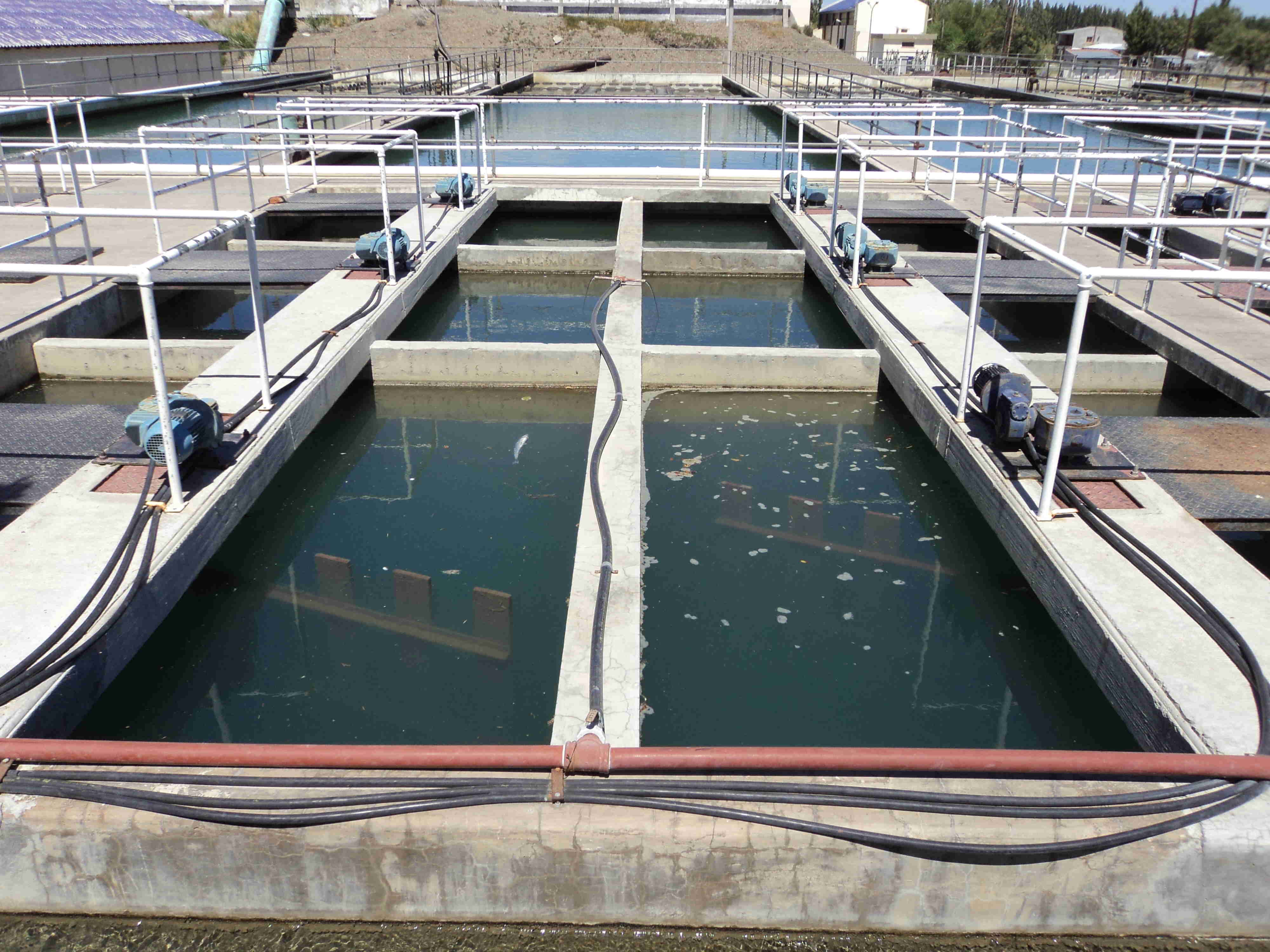 Floculadores de tres etapas en serie - Planta potabilizadora Acueducto Antiguo